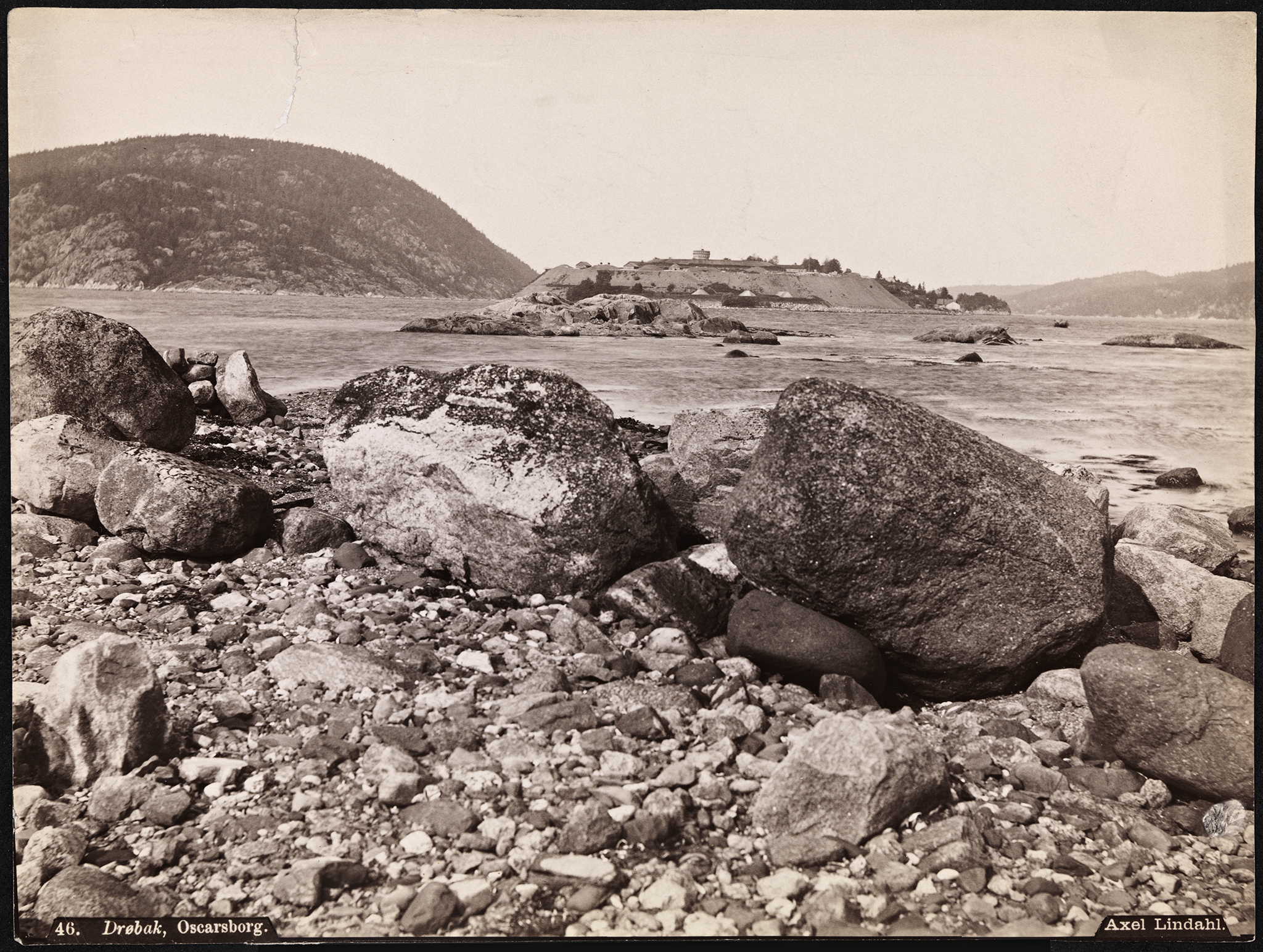 Tittel / Title: 46. Drøbak, Oscarsborg Dato / Date: ca 1880-1890 Fotograf / Photographer: Axel Lindahl (1841-1906) Sted / Place: Akershus, Frogn, Drøbak Eier / Owner Institution: Nasjonalbiblioteket / National Library of Norway Lenke / Link: Bildesignatur / Image Number: bldsa_AL0046